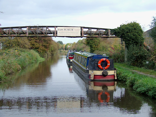 Pipe Bridge over the Trent and Mersey Canal, Burton-upon-Trent. The pipe bridge has for many years displayed an advertisement for the famous Bass Museum of brewing. As Coors (who changed the museum's name to the Coors Visitor Centre in 2003), decided more than a year ago to close the museum, it seems crass that this should be left on display; or are they hoping someone will finance and re-open it?* 1581990 PS: Coors don't even brew Bass ale any more; Marston's brew it for them! Update: Someone has taken on the brewery museum, including the shire horses, and it should re-open at Easter 2010